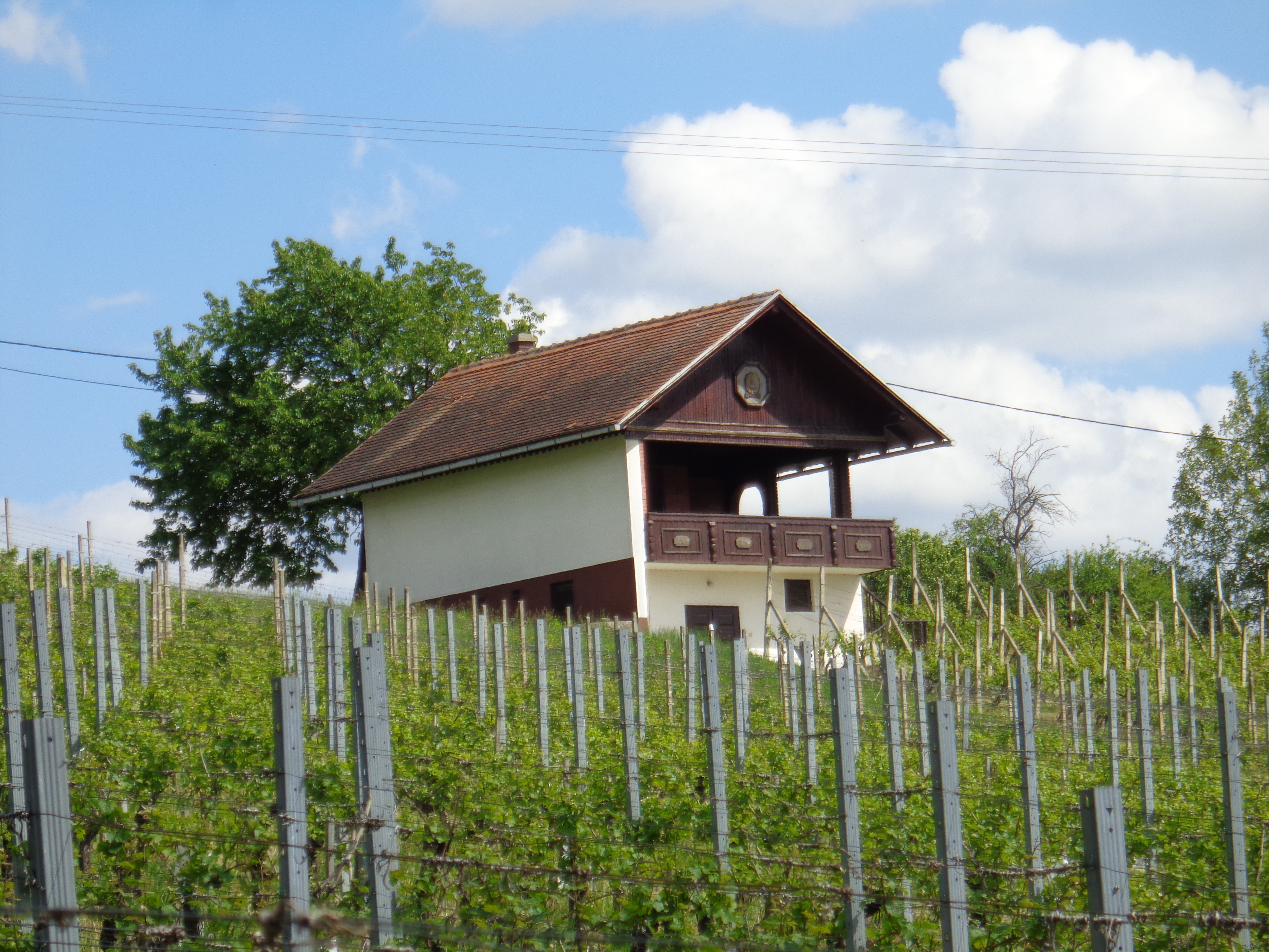 A holiday cottage (weekend house) in Medjimurje County, northern Croatia, surrounded by vineyards